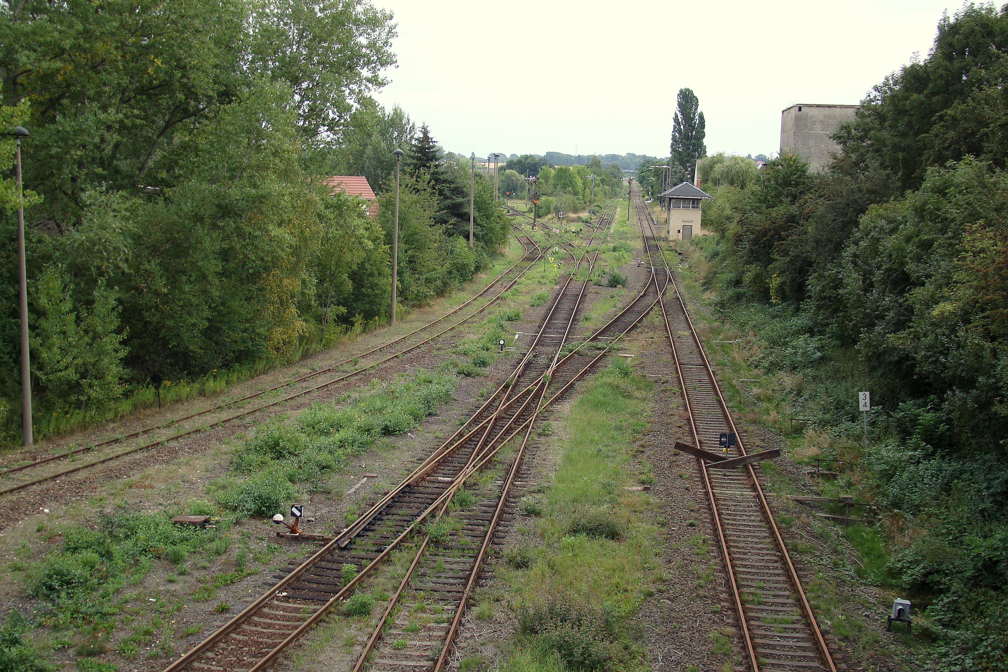 Station Tröglitz at the railway line Zeitz - Altenburg (in direction of the view); the tracks to the left lead to the chemical parc Zeitz.